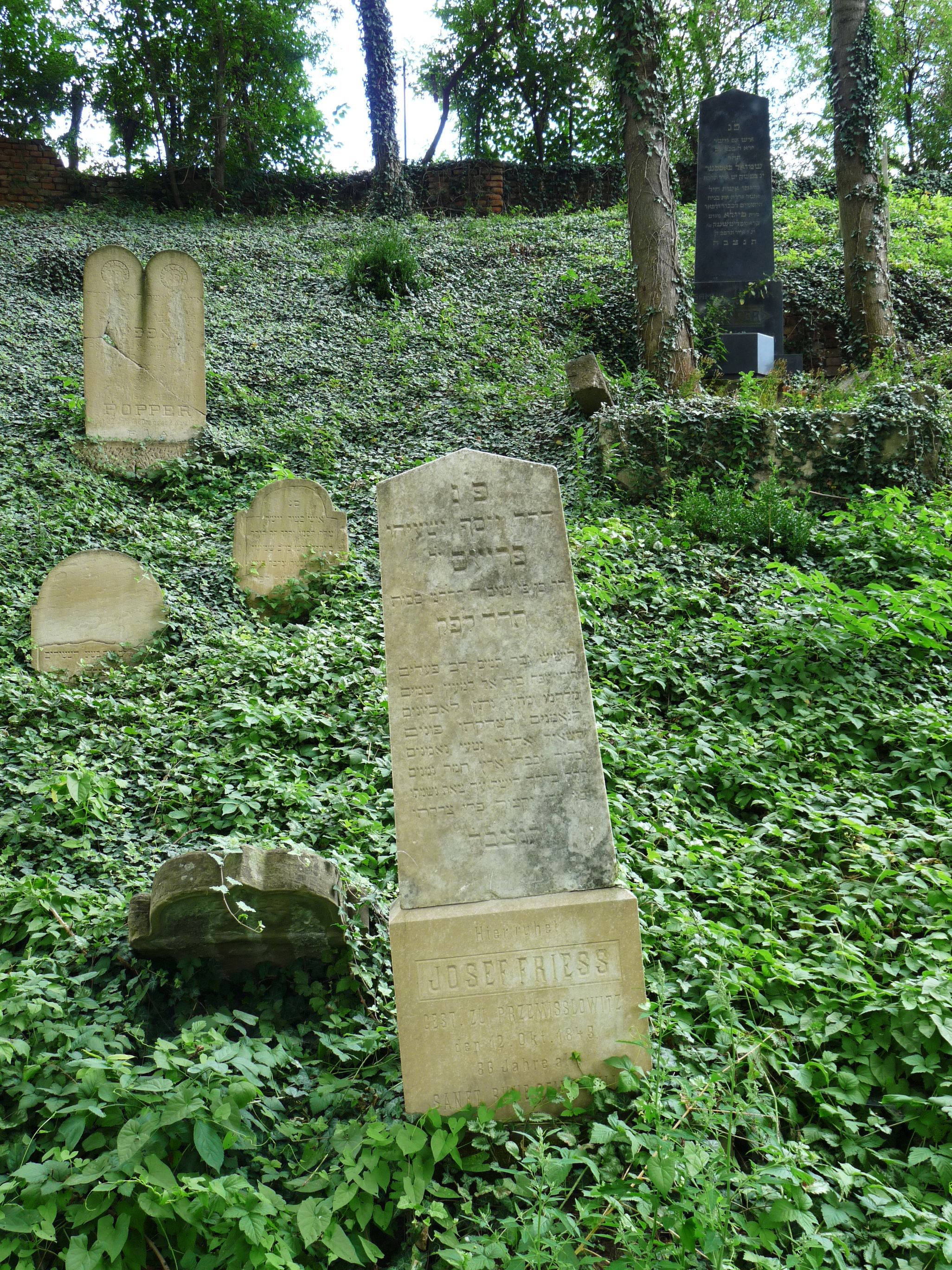 Jewish cemetery in the town of Bučovice, Vyškov District, South Moravian Region, Czech Republic.